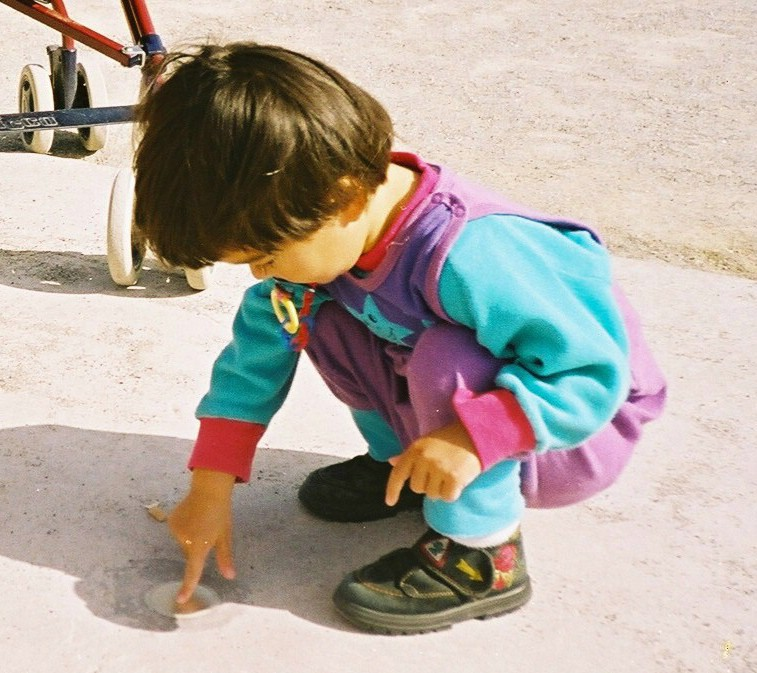 Walter De Maria's "Vertical Earth Kilometer" in Kassel, Germany. Own picture, taken 1997. Child, my daughter, is two years old at time photo was taken.